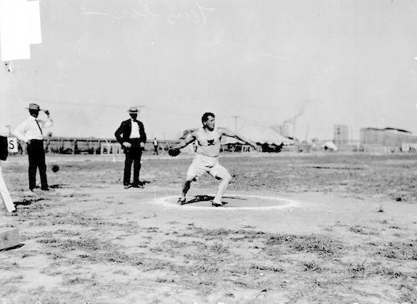 American athlete John Flanagan during the discus throw competition at the 1904 Summer Olympics.